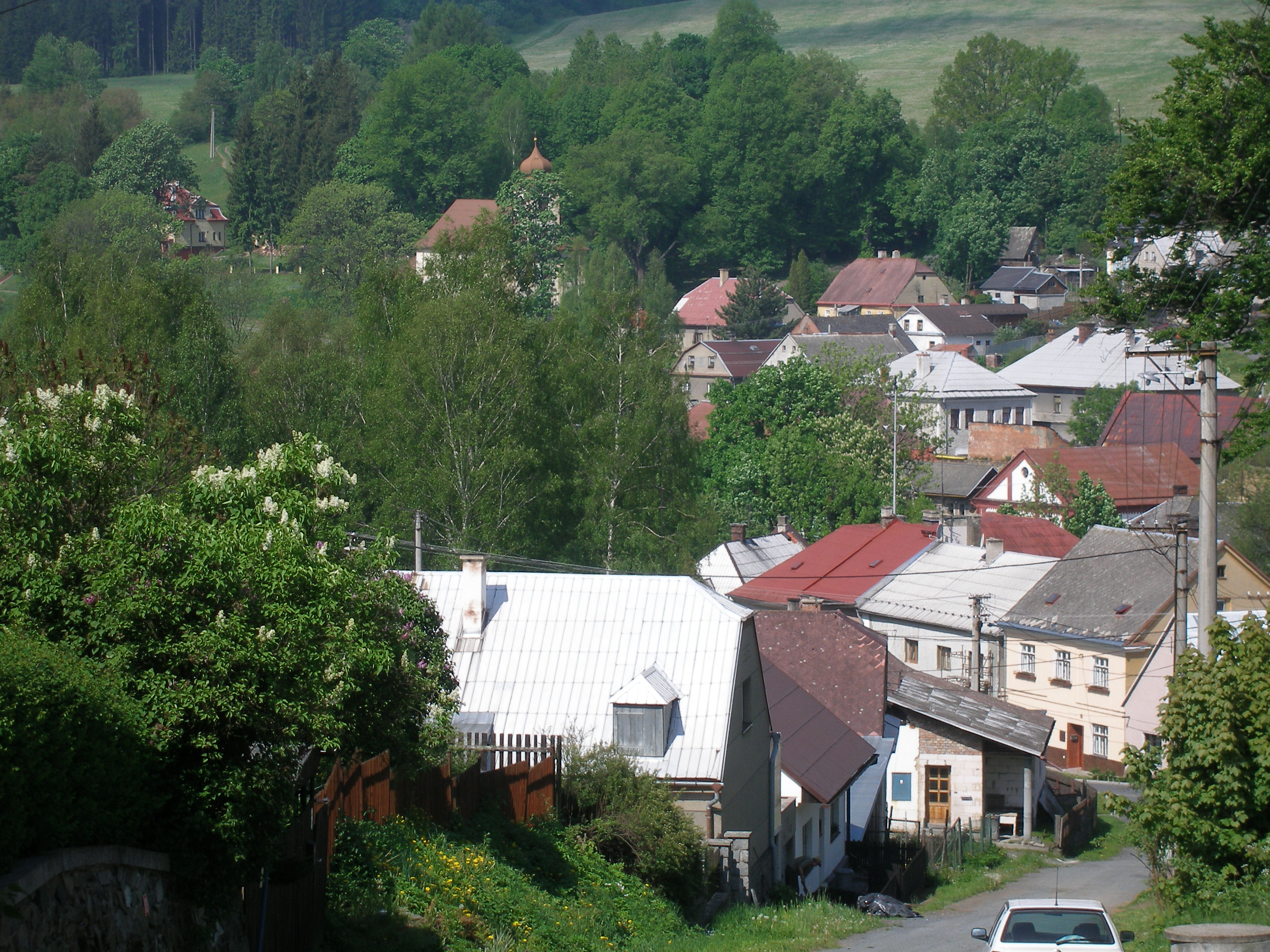 View to Domašov nad Bystřicí from the path to Město Libavá